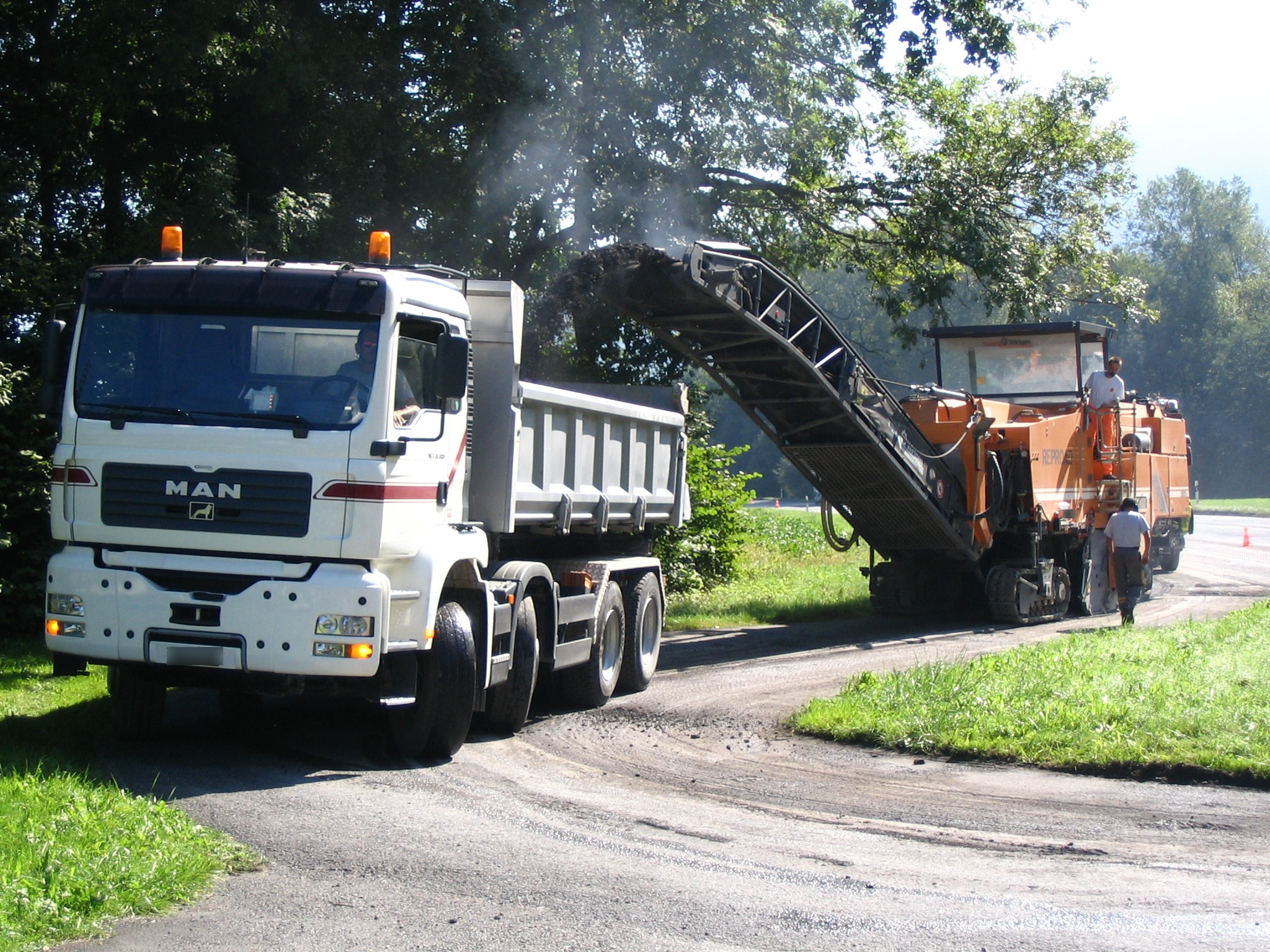 An asphalt paving machine at work. It scraps old asphalt from the ground and deposits fresh and hot asphalt. The operator in orange communicates with the truck driver using a simple horn (a beep meaning it must move forward).